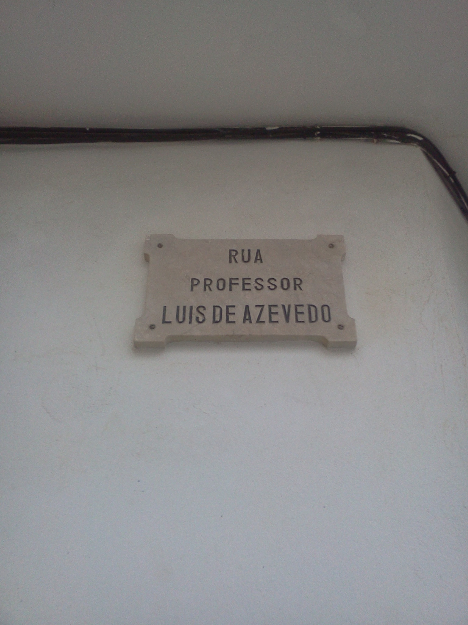 Street sign of Rua Professor Luís de Azevedo, in the city of Lagos, in southern Portugal.